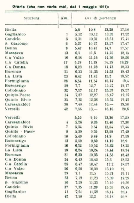 1911 Timetable